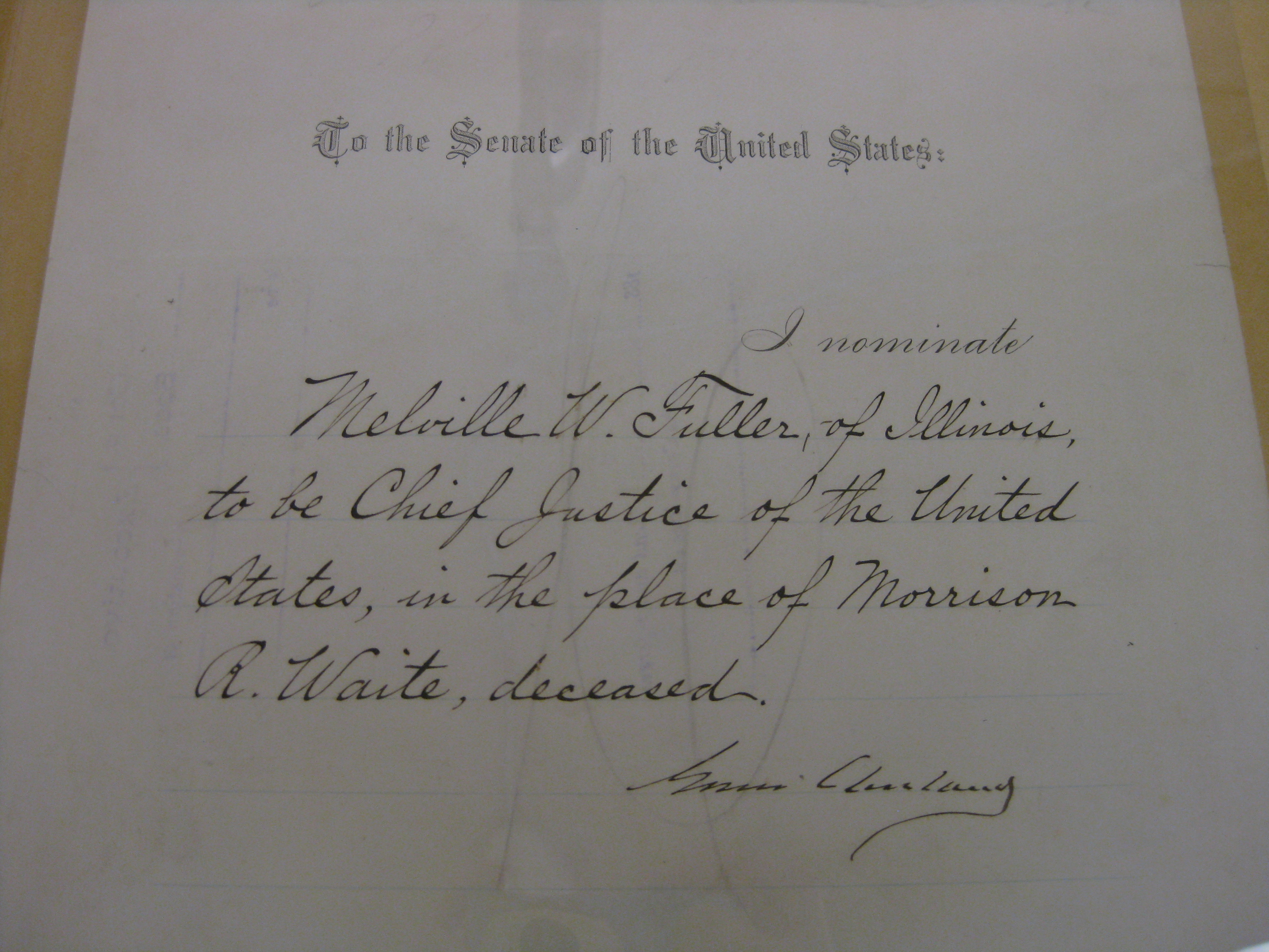 Grover Cleveland's nomination of Melville Fuller to serve as Chief Justice of the U.S. Supreme Court. Courtesy of the National Archives and Records Administration.